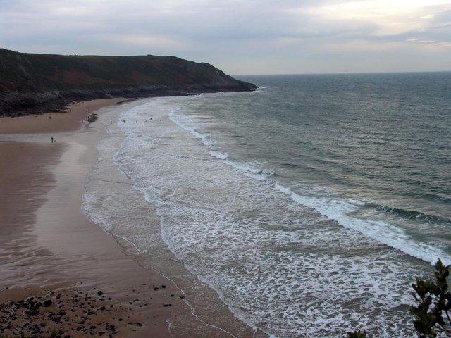 Caswell Bay